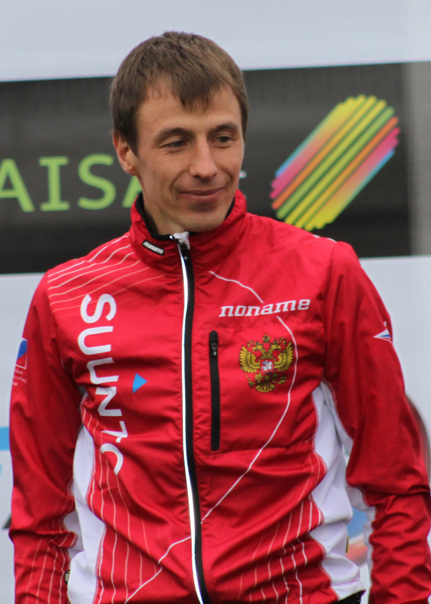 Dmitriy Tsvetkov at World Championship 2013